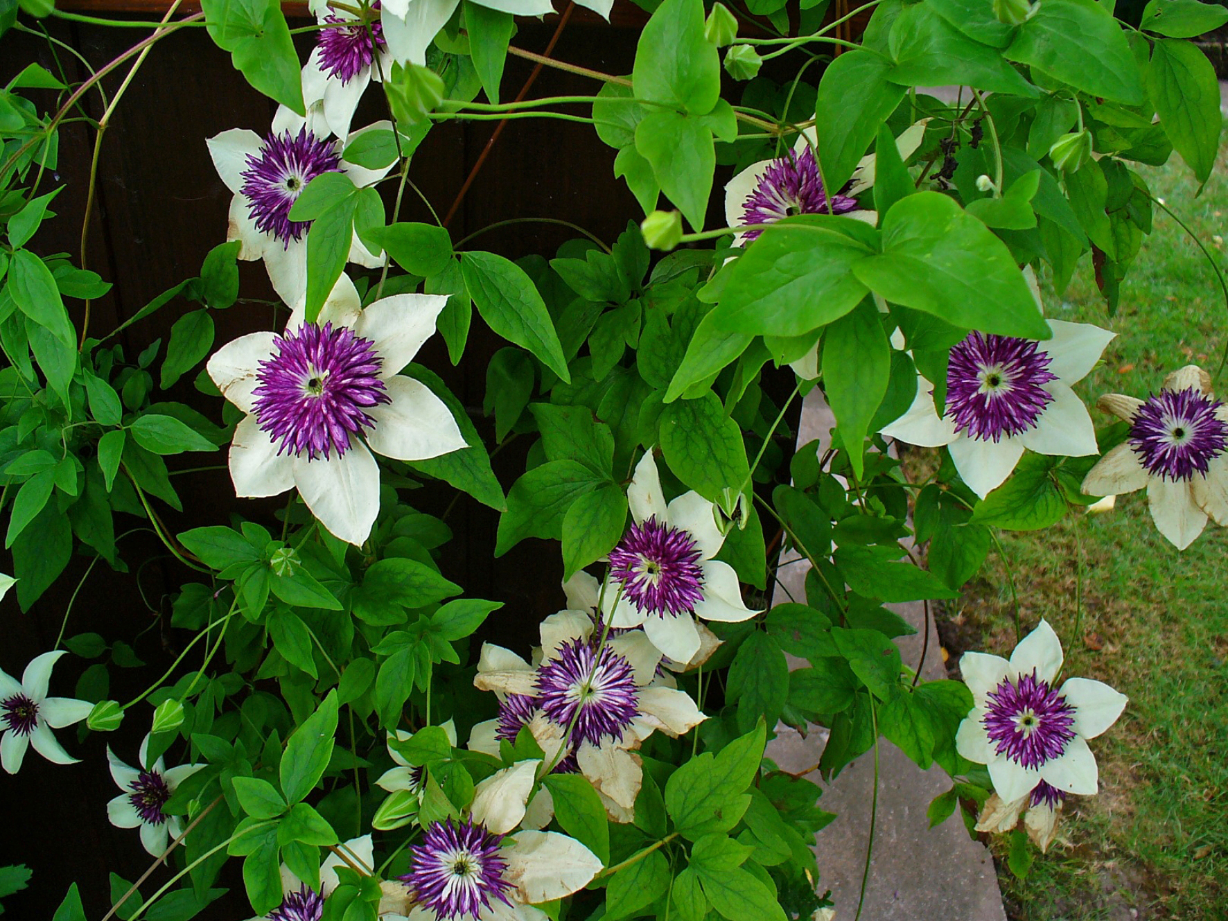 Clematis florida 'Sieboldii', Ranunculaceae, habitus; Karlsruhe, Germany.